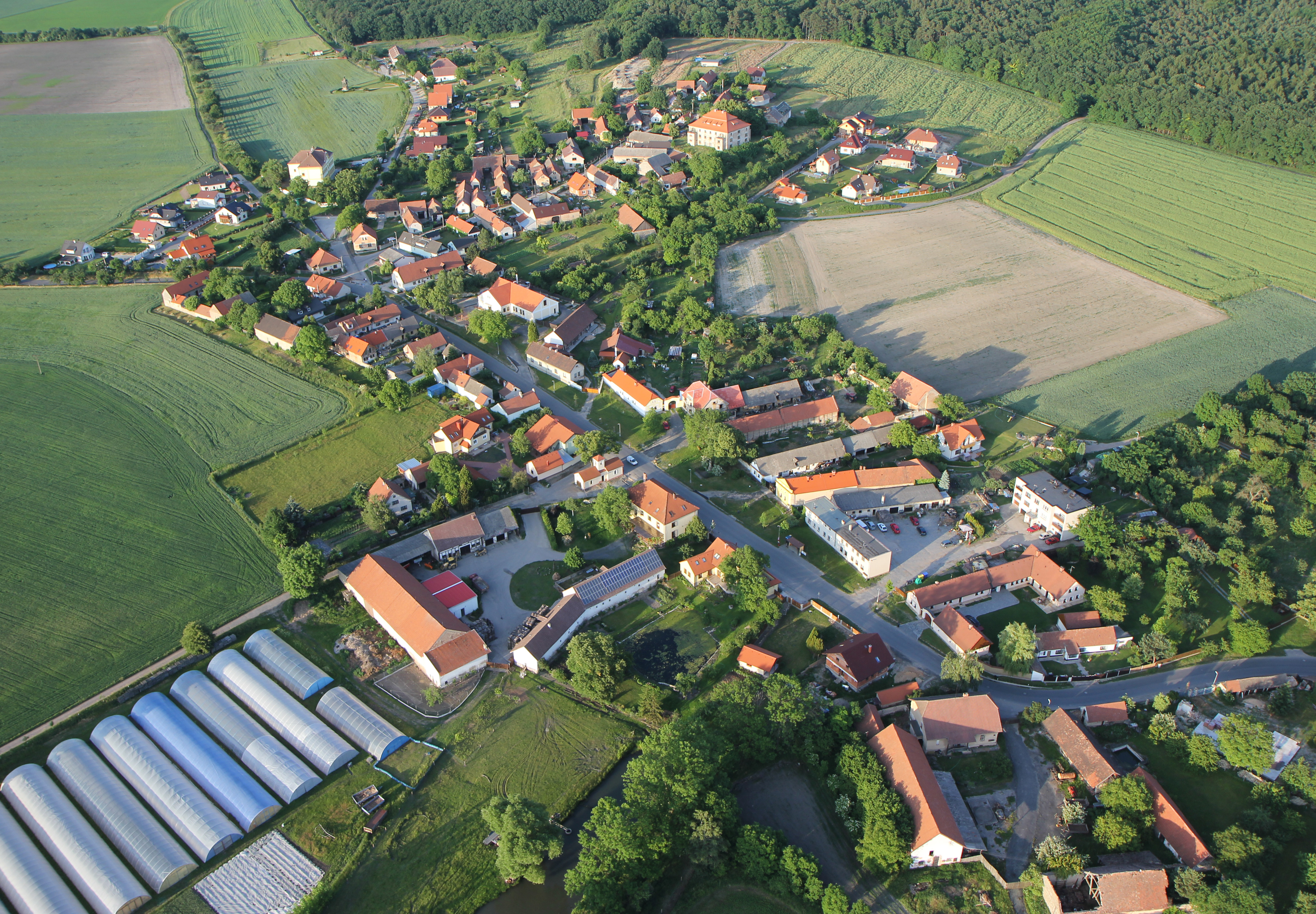 aerial photo